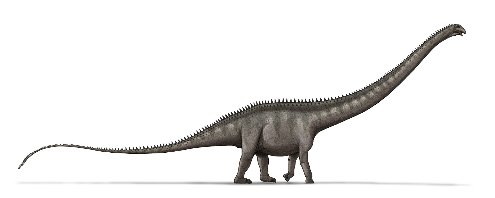 Supersaurus (meaning "super lizard") was a diplodocid dinosaur discovered in a rock formation in the U.S. state of Colorado in 1972, alongside bones of a Brachiosaurus. The holotype of Supersaurus is a large Scapular measuring about 2.4 meters long, making it taller than most adult humans. A few other bones from the quarry were referred to Supersaurus such as an ischium, pubis, a pelvis and various vertebra. In 2007 WDC DMJ-021 more complete diplodocid specimen was referred to Supersaurus. Supersaurus may have been up to 34 meters (112 feet) long, making it the largest member of the diplodocid family known from relatively complete remains. Image Information. • Based on a skeletal drawing by Scott Hartman, which is primarily based on WDC DMJ-021 (Jimbo) [1], with posture modified based on Vidal et al. 2020. [2][3] • The dermal spines shown here aren't known in Supersaurus but these are known from another diplodocid, probably Kaatedocus. Their arrangement on the body is speculative.